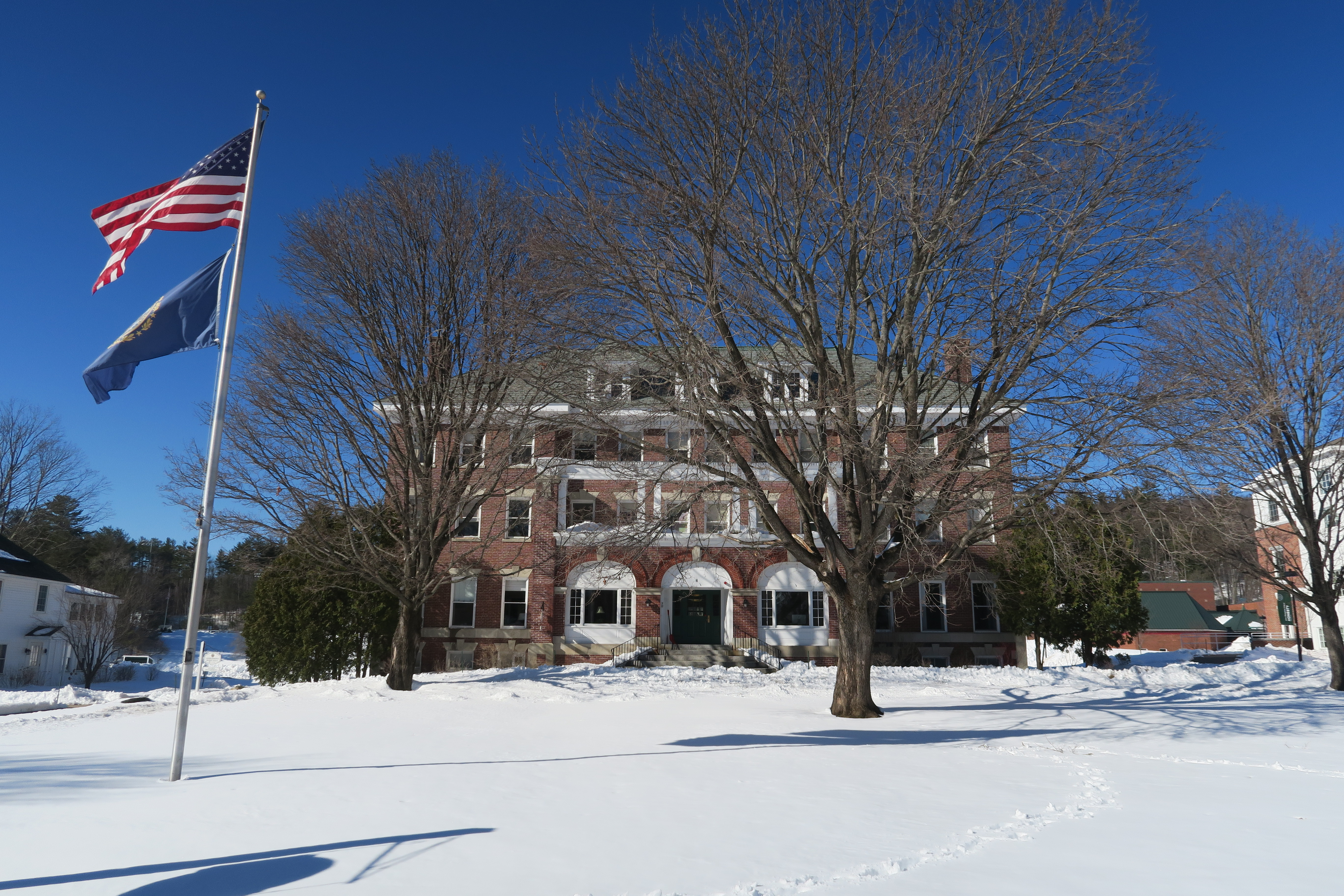 Berry Hall, New Hampton School, New Hampton New Hampshire